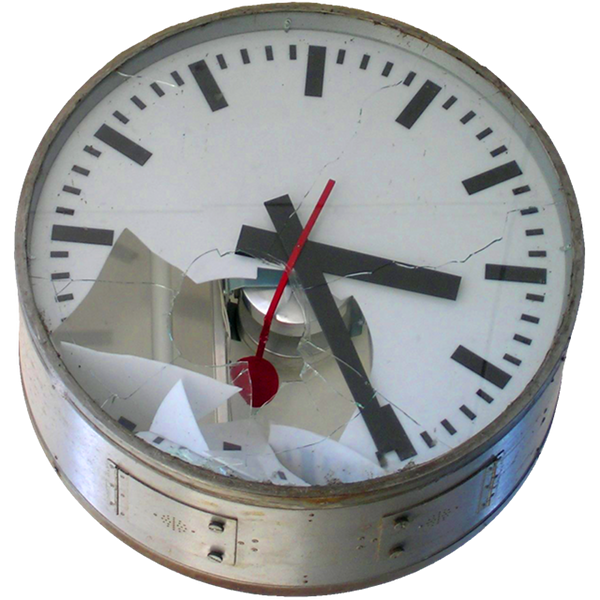 Railway station clock, broken due to vandalism. Photographed at an unknown location, probably in Switzerland.